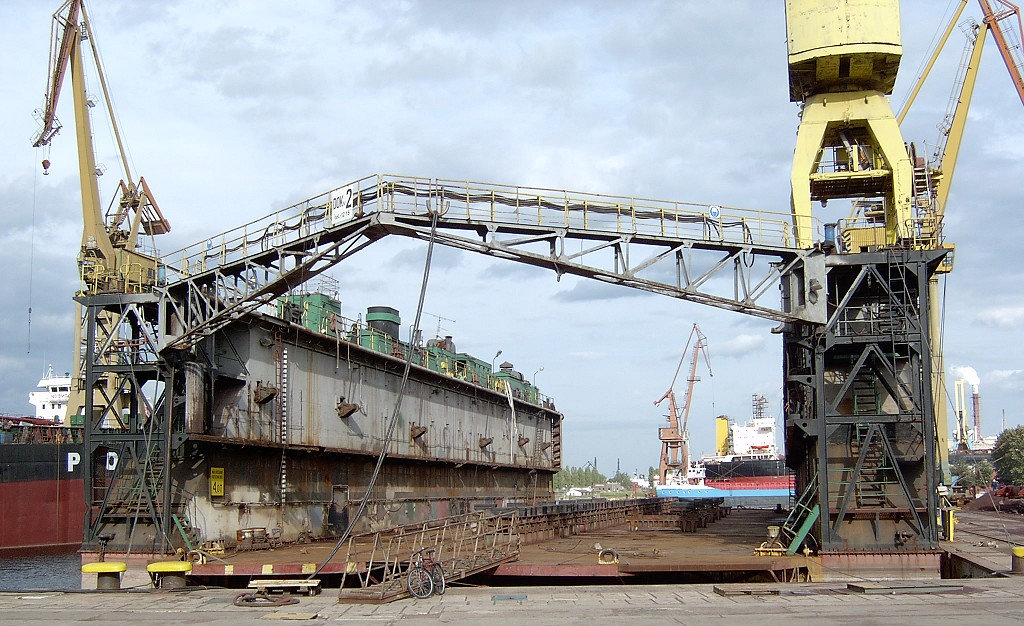 Floating dock of Remontowa Shiprepair Yard in Gdansk, Poland.